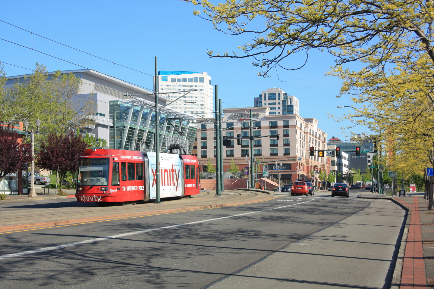 Tacoma Link car 1001 with national cable television provider Comcast xfinity advertising, runs southbound between South 17th Street and the Union Station/South 19th Street stop on Pacific Avenue on 13 May 2010. In the background are the Greater Tacoma Convention & Trade Center, the Hotel Murano and the Courtyard by Marriott Hotel.